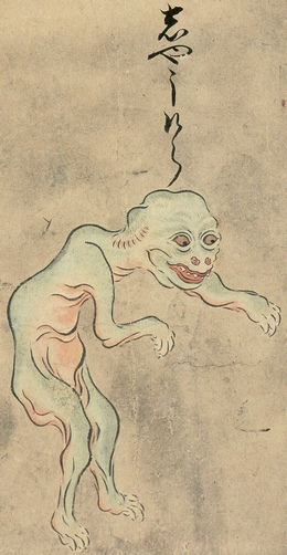 Shōkera (a creature that peers in through skylights) from the Hyakkai-Zukan